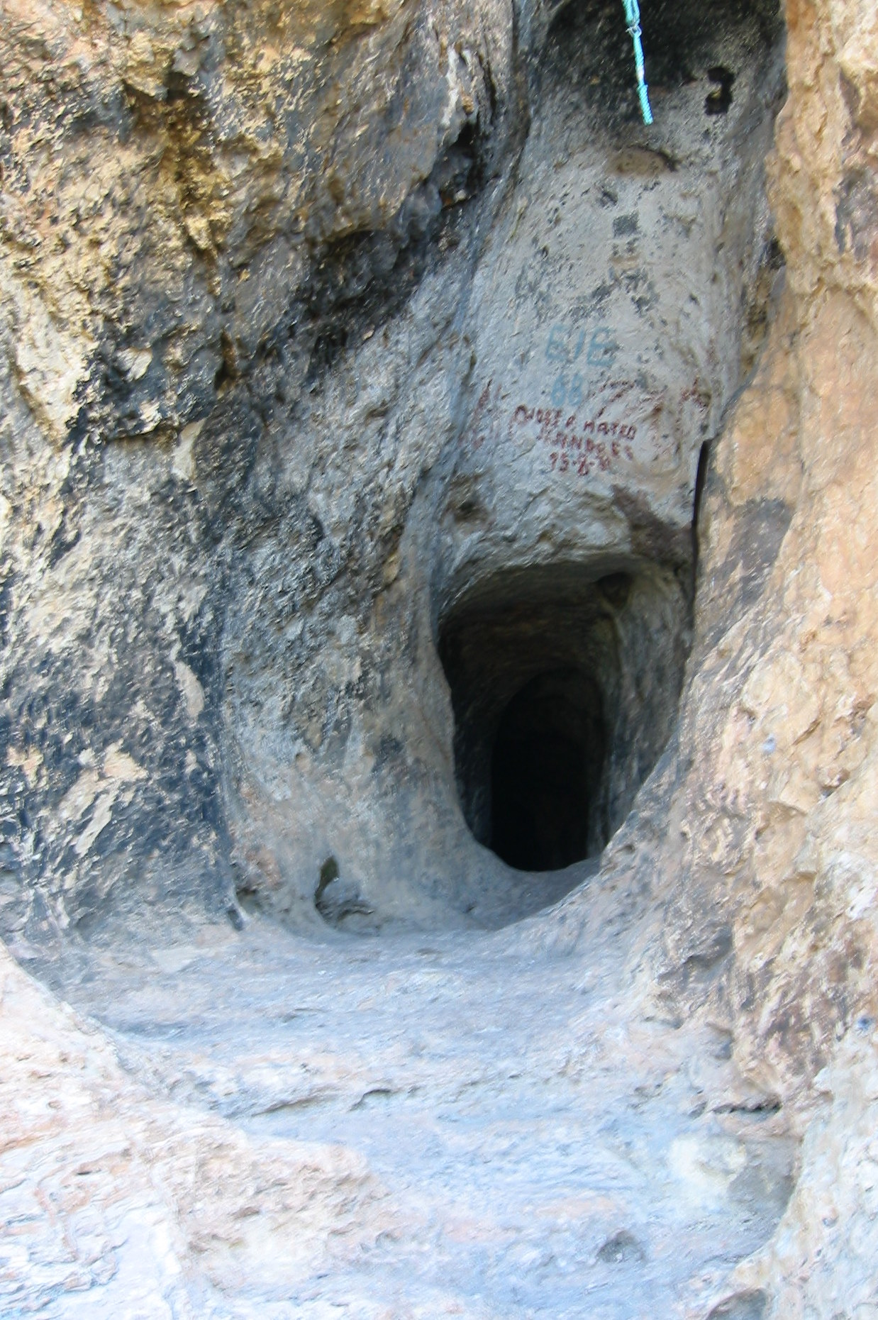 Entrada a la Cueva Santa del Cabriel